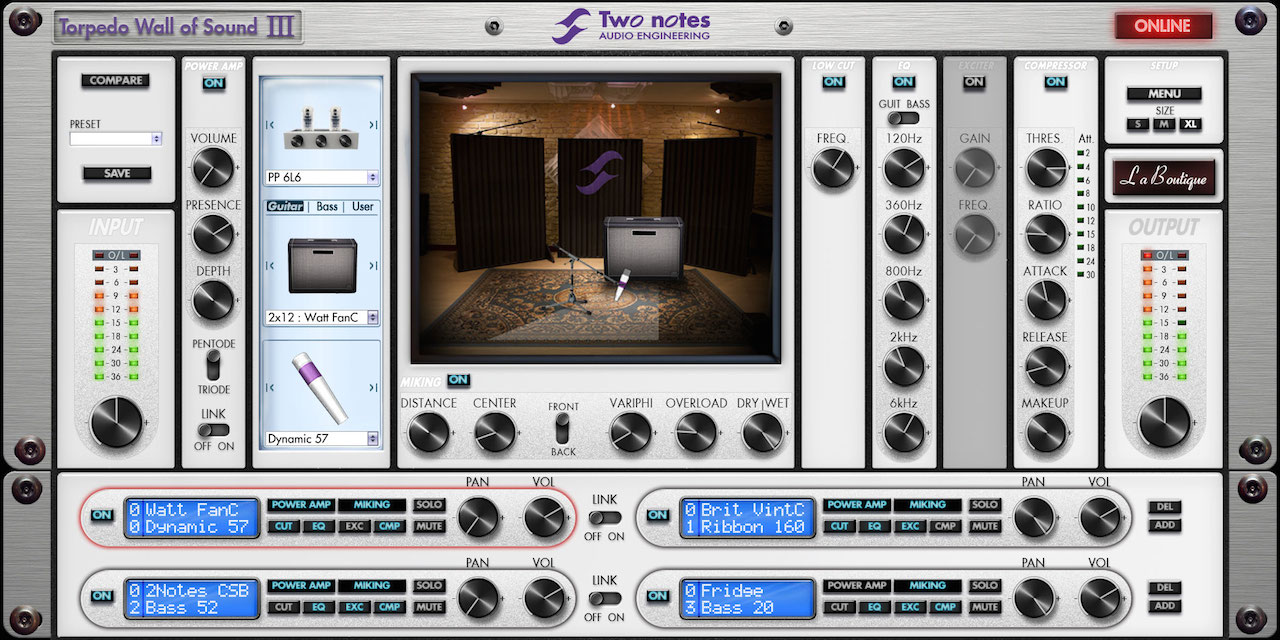 Plug-in Wall of Sound III